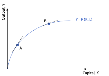 The file represents the output function in terms of capital input. Taking into consideration that labor input, L, is constant, it can be observed that as K increases, the increase on the output, Y, becomes less and less significant. This fact can be proven by the flatter slope on point B than on point A. The slope of any point in the curve is the marginal product of capital, and the evidence that the slope becomes less steeper as K rises is called diminishing marginal returns of capital.